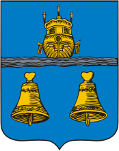 Makariev (Kostroma oblast), coat of arms (1779)